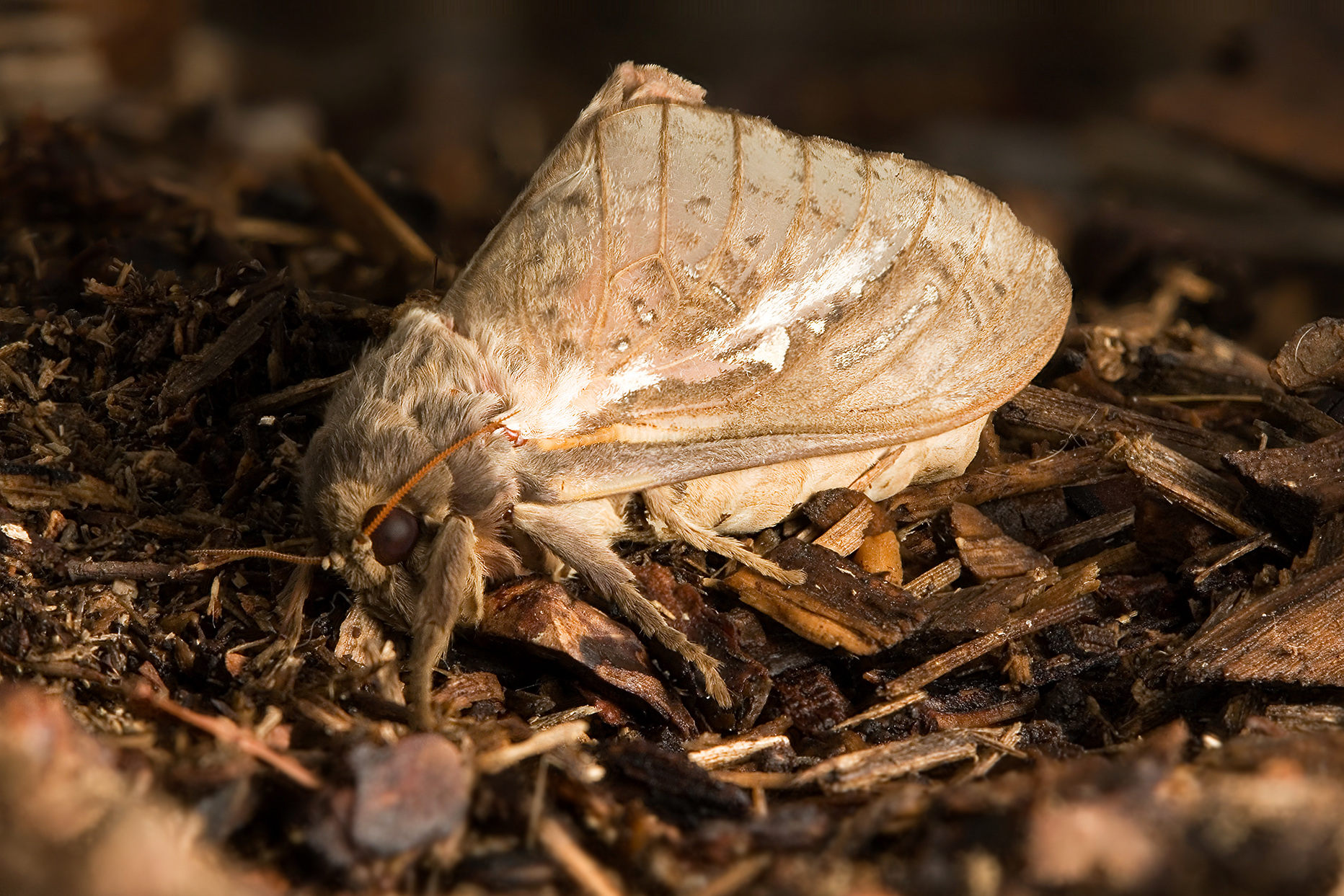 Pindi Moth Abantiades latipennis, Austins Ferry, Tasmania, Australia Camera data Camera Canon EOS 400D Lens Tamron EF 180mm f3.5 1:1 Macro Flash Softbox Focal length 180 mm Aperture f/11 Exposure time 1/200 s Sensivity ISO 400